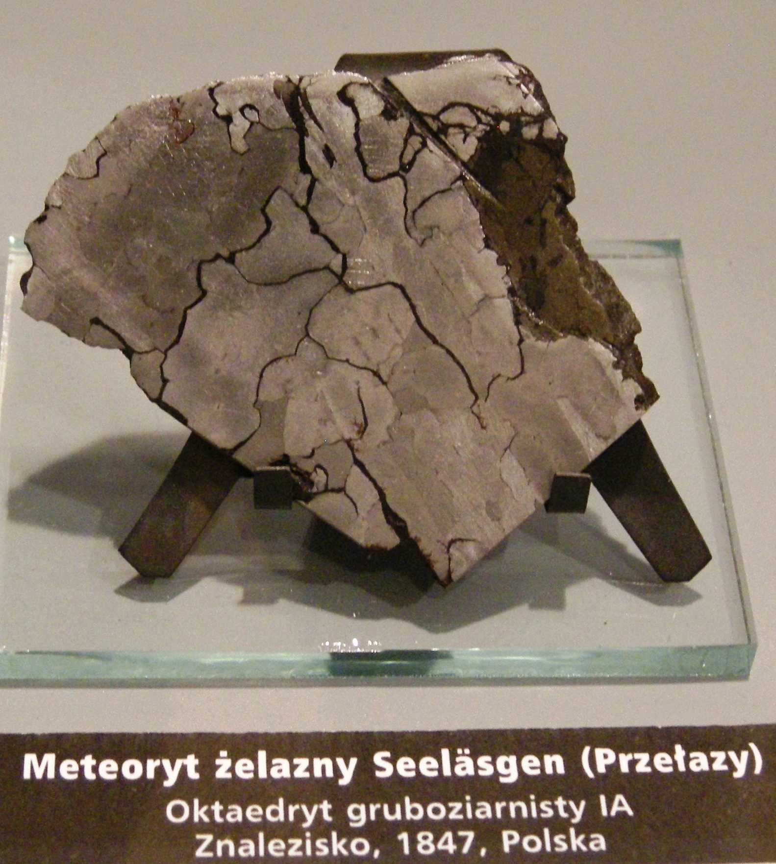 Seeläsgen meteorite